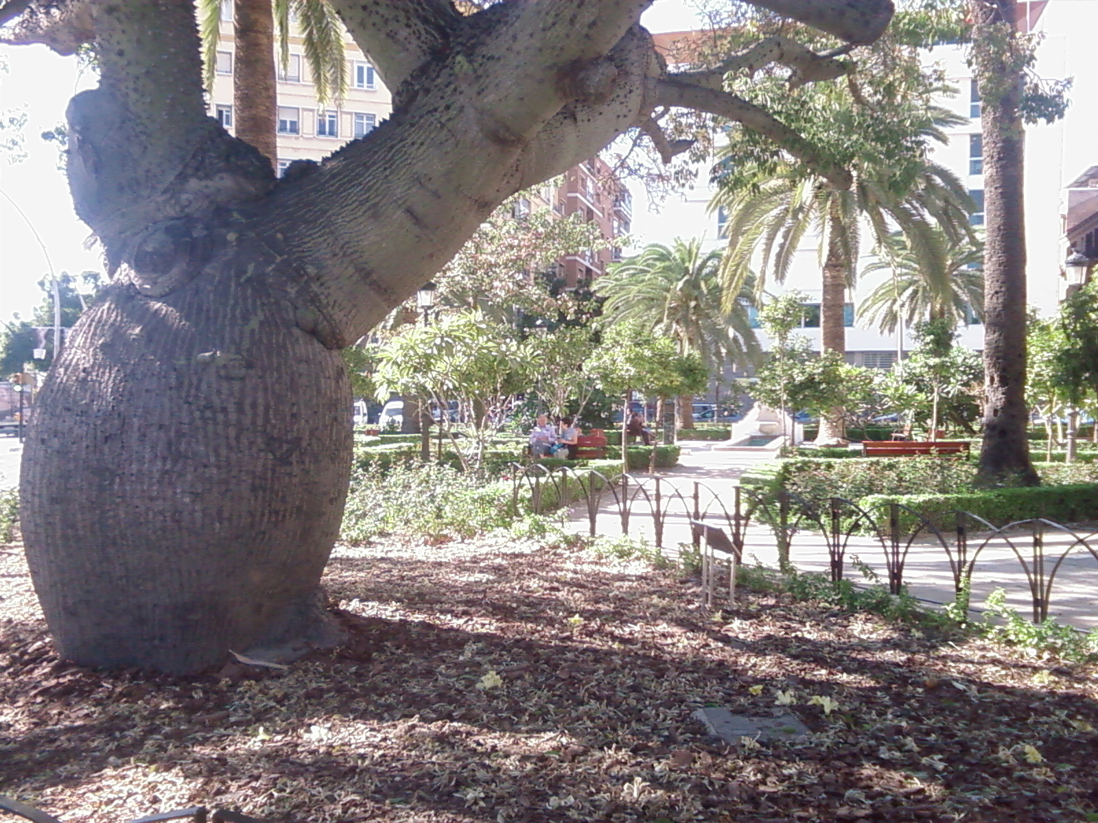 Alfonso Canales Garden in Málaga, Spain